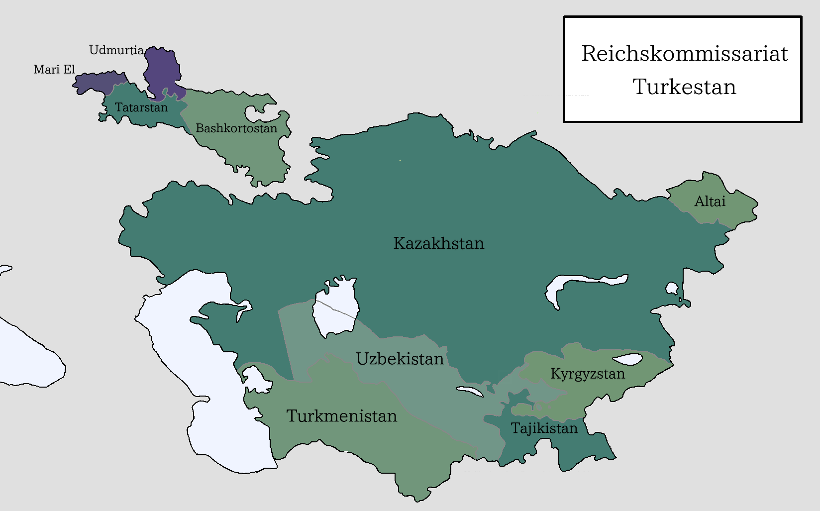 All proposed territories of the Reichskommissariat Turkestan